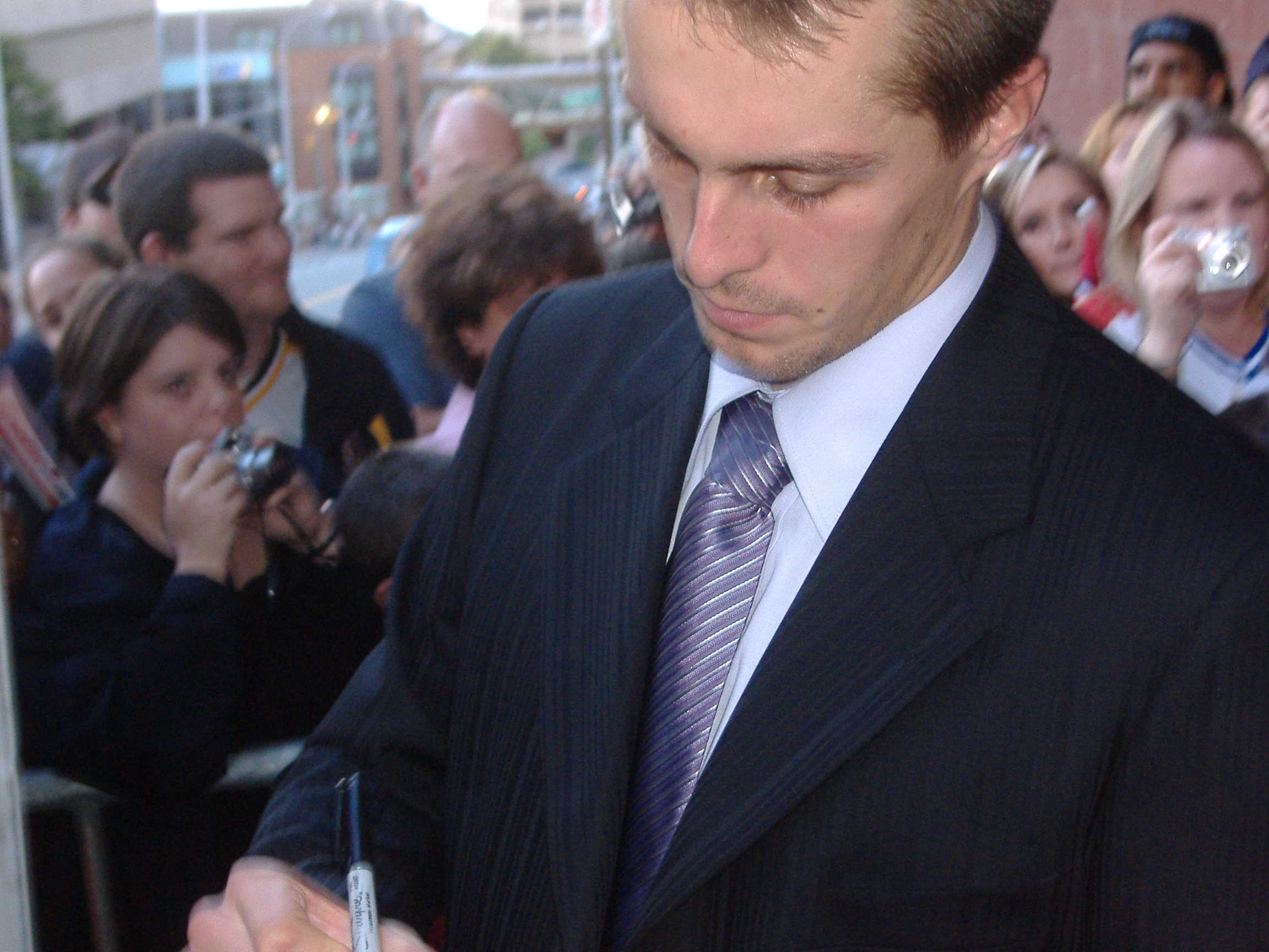 Jaroslav Halak outside Halifax Metro Center after Montreal Canadiens exhibition game on September 28, 2007